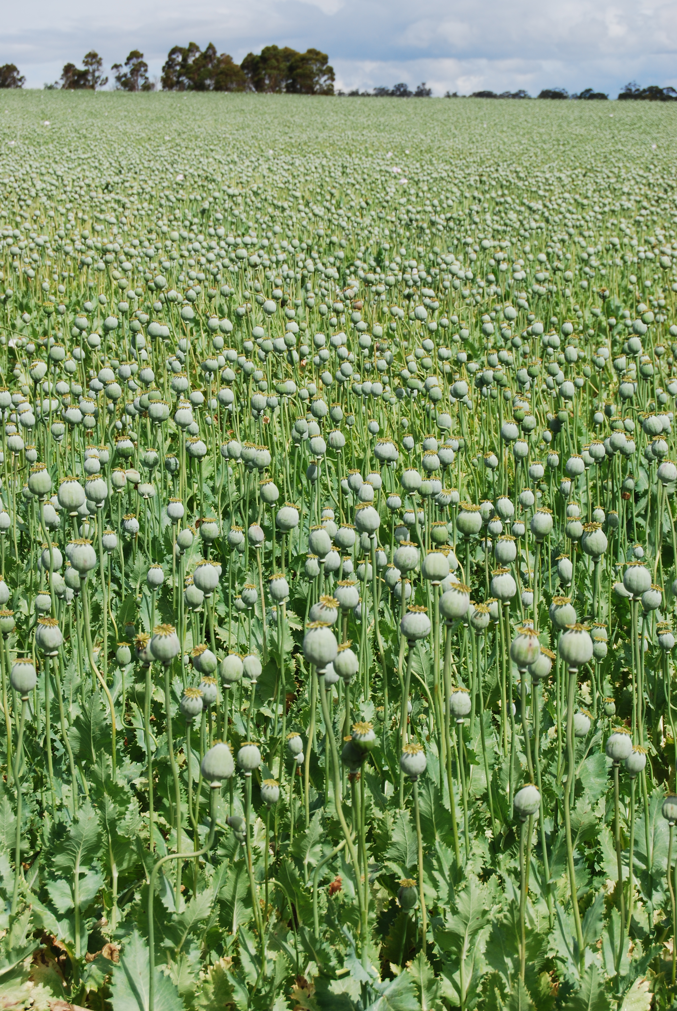 Papaver somniferum - Opium poppies - in Northern Tasmania, Australia